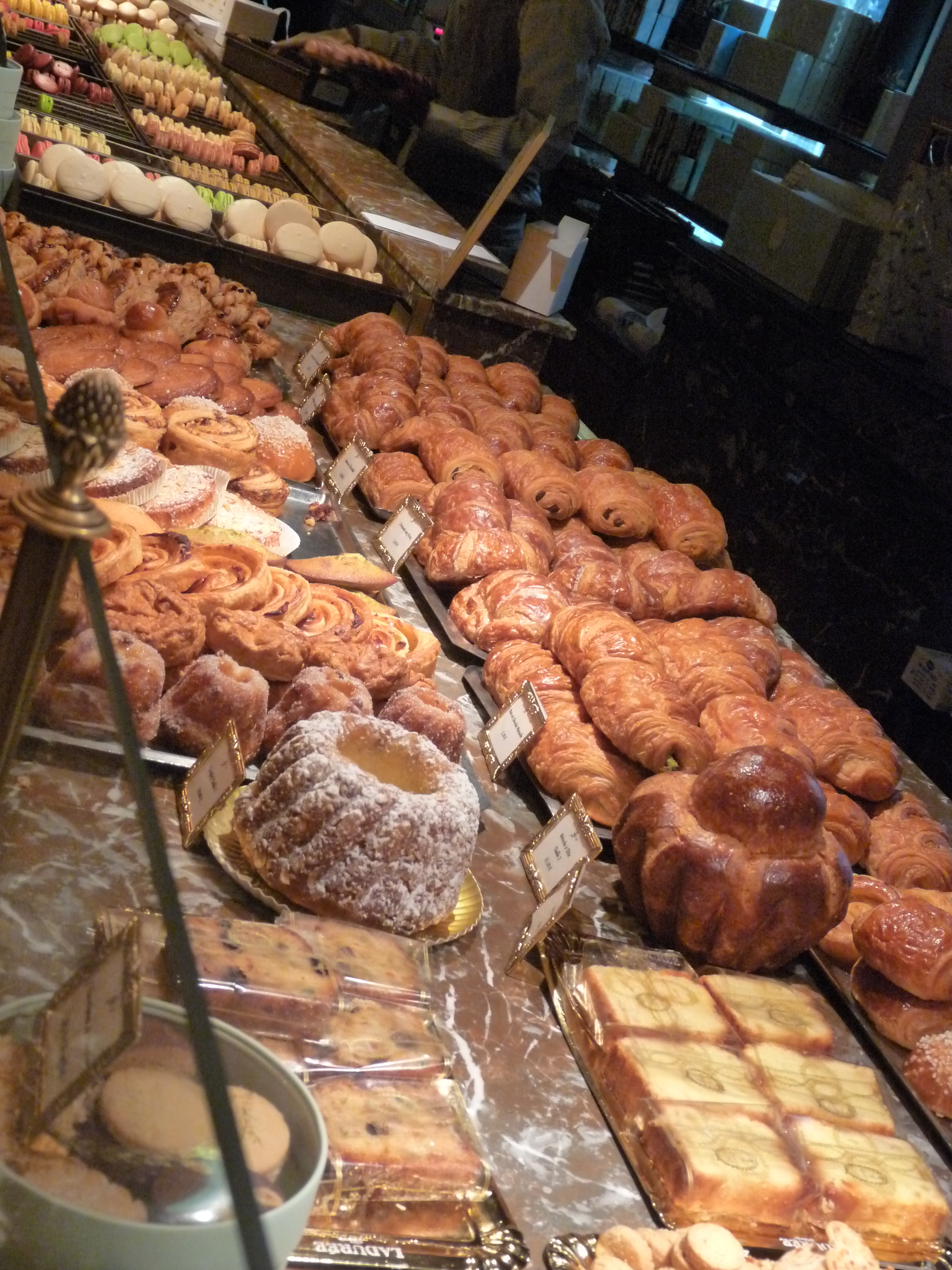 Pâtisseries on display in Ladurée on the Champs-Élysées, Paris.